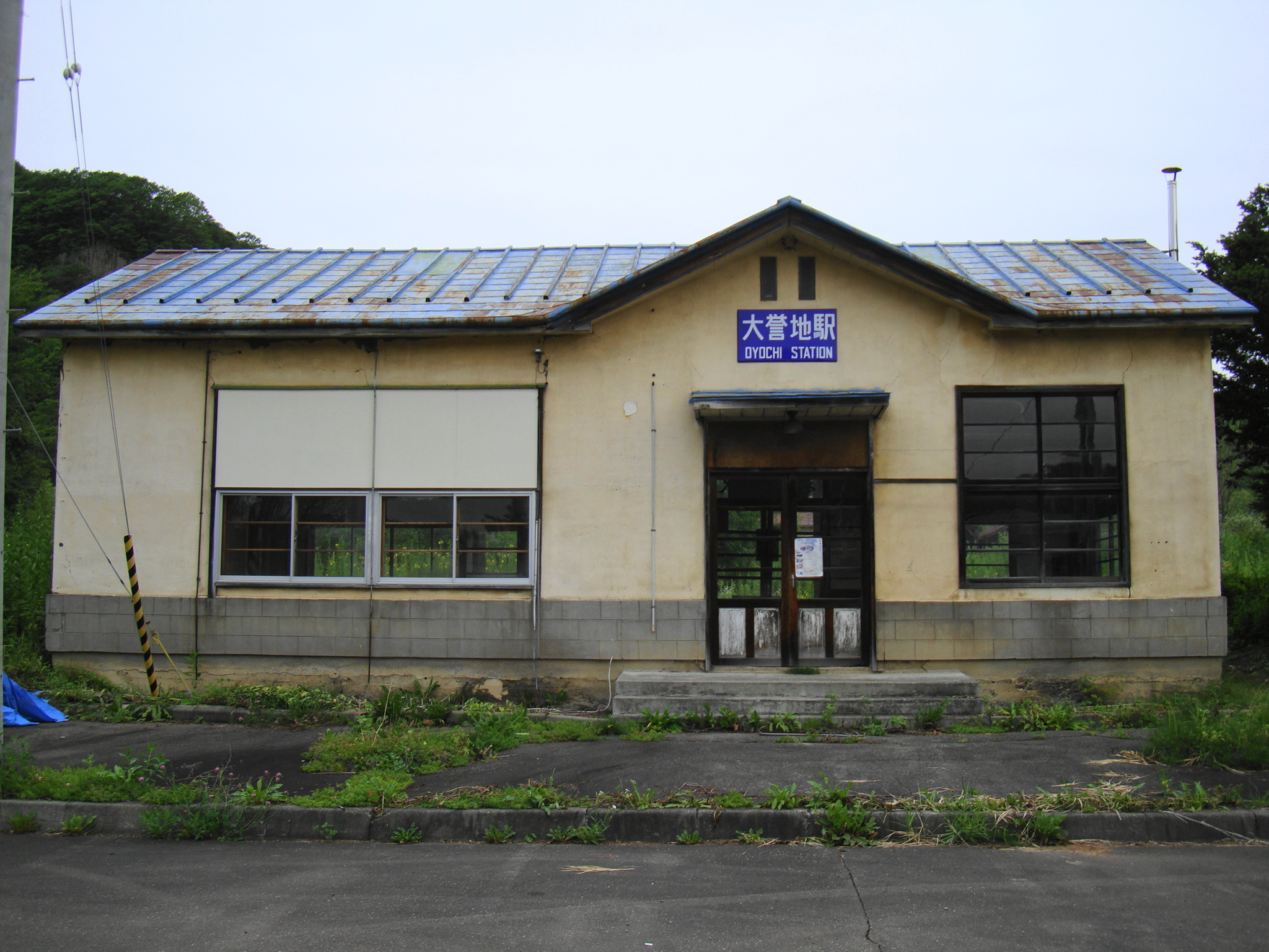 Oyochi Station on the Hokkaido Chihokukogen Railway Furusato Ginga Line